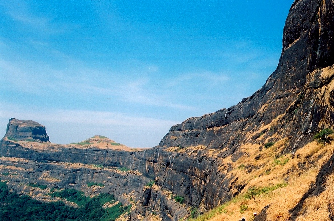 This is the long Traverse we need to take to reach the top of Alang fort